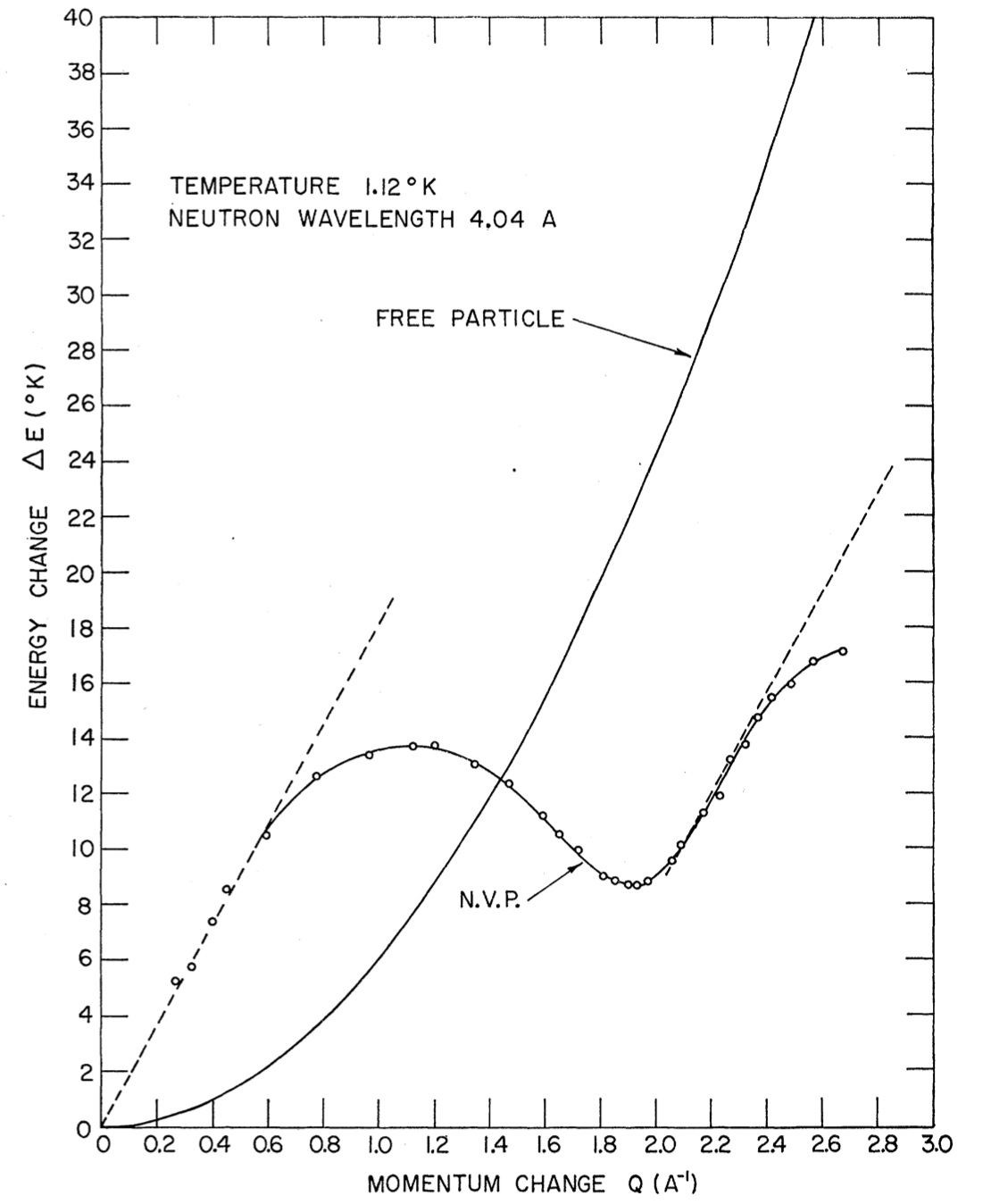 The dispersion curve for liquid helium at 1.12K under its normal vapour pressure. The parabolic curve rising from the origin represent the theoretically calculated for free helium atoms at absolute zero.